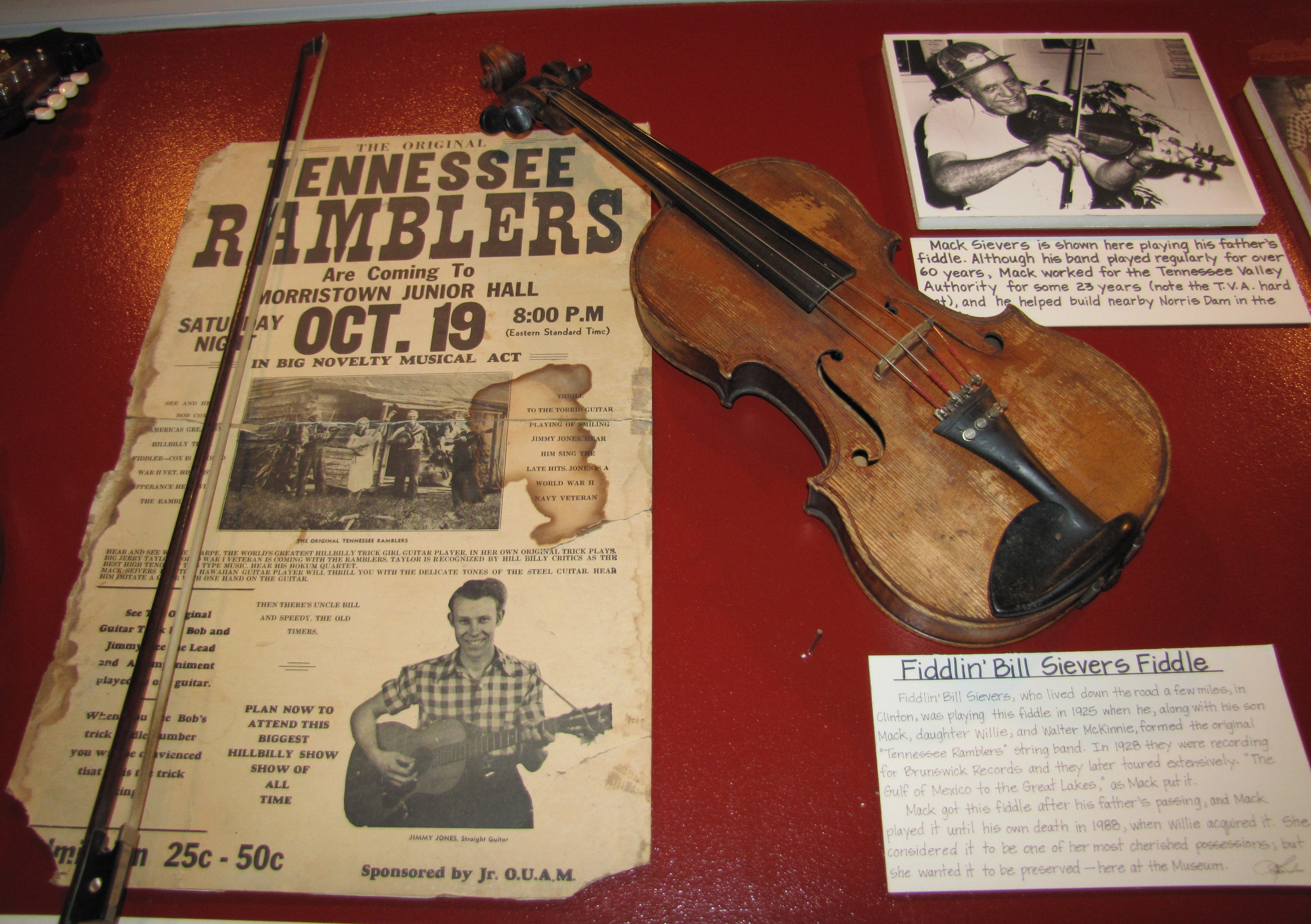 Tennessee Ramblers display at the Museum of Appalachia in Norris, Tennessee, USA. The Tennessee Ramblers, created by "Fiddlin' Bill Sievers" and his children, Mack and Willie, played old-time and hawaiian music in the Knoxville area for nearly of half-century. The display shows Bill Sievers' fiddle and a 1940s-era advertisement.